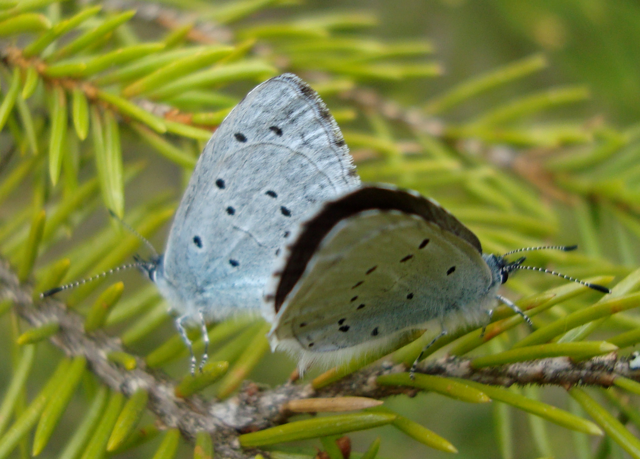 Celastrina argiolus mating on Picea abies. Dalarna, Sweden